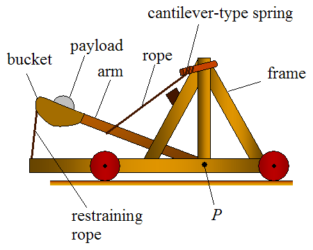 mangonel